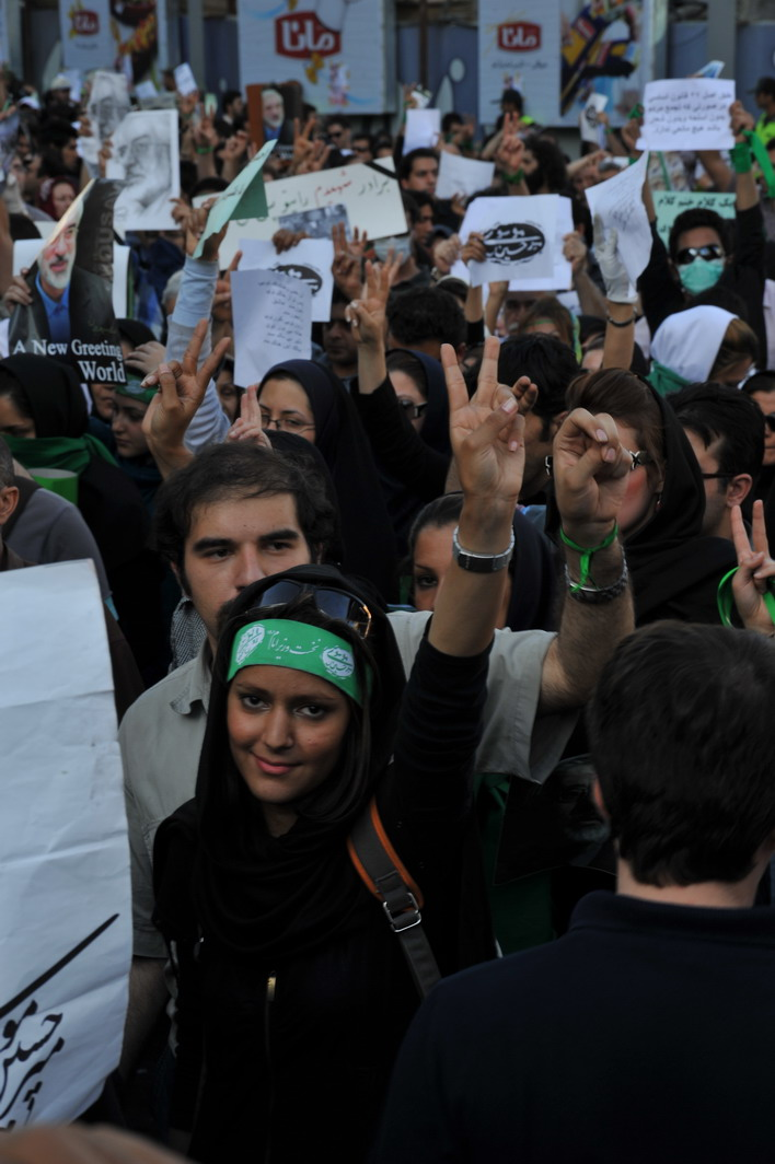 silent demonstration from Hafte tir Sq. to Enghelaagh Sq., Tehran, June 16 - part of the 2009 Iranian election protests